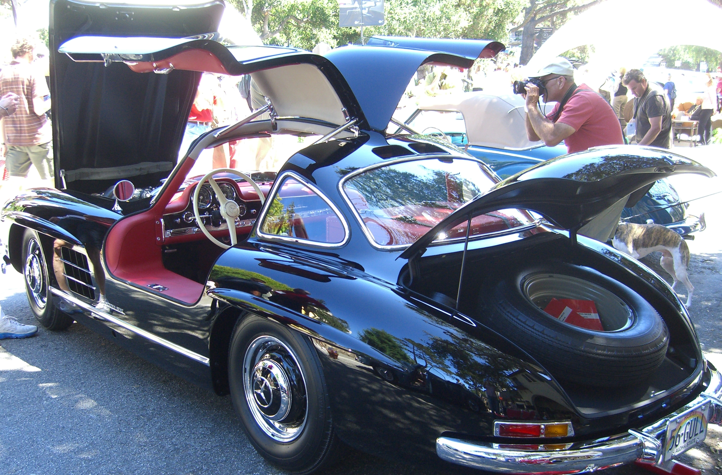 1956 300SL photographed Pebble Beach pre-show, Carmel, CA.